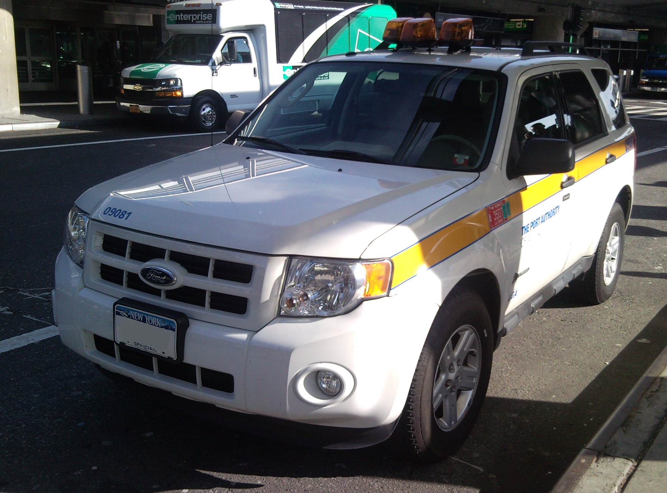 2009-2012 Ford Escape Hybrid LaGuardia Airport photographed in New York City, New York, USA.